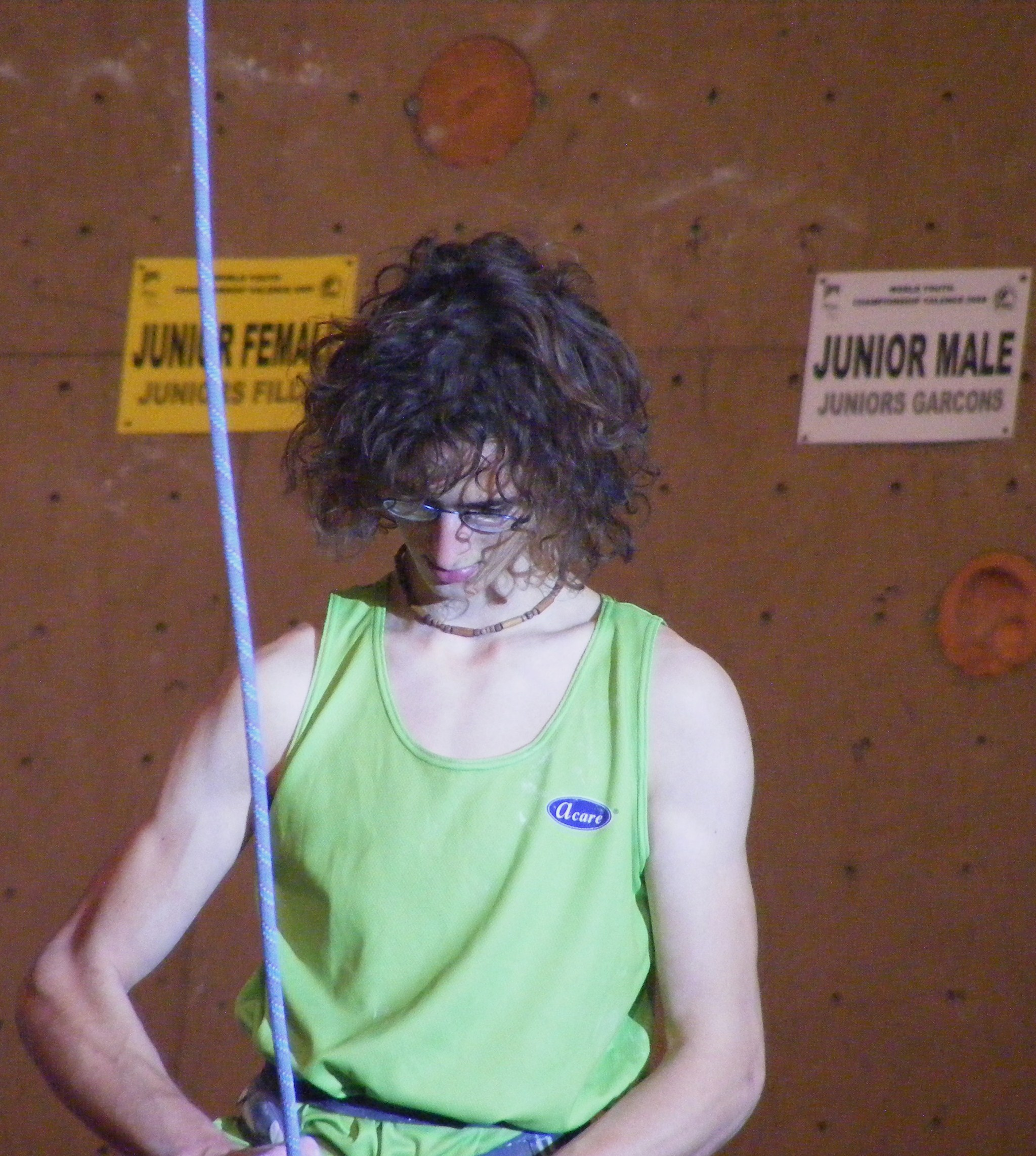 Adam Ondra at Junior Worlds, Valence, France. 2009